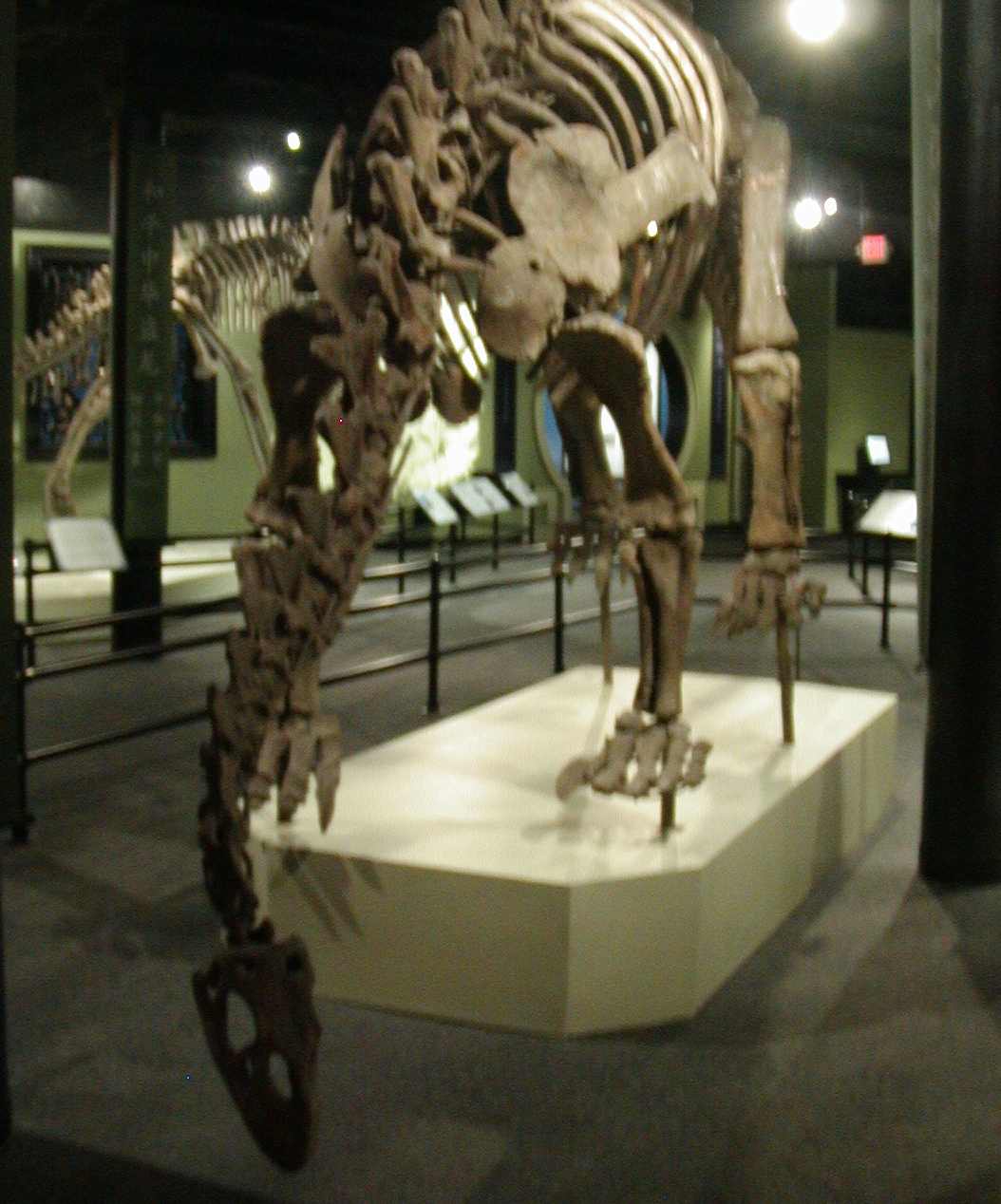 Photo of skeleton of Shunosaurus lii from the Beijing Museum on view at the Miami Museum of Science.